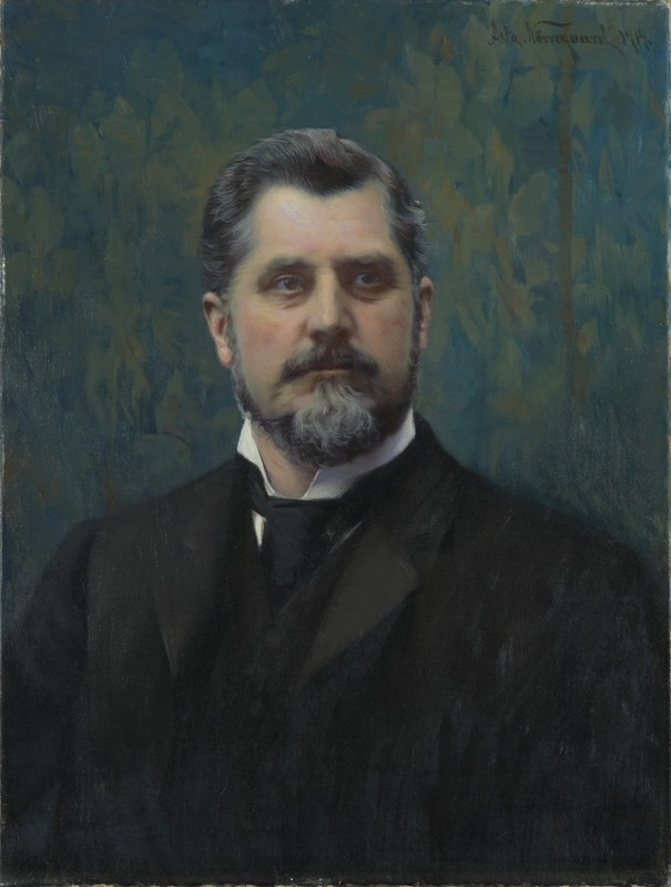 Painting after a photograph from ca. 1900.